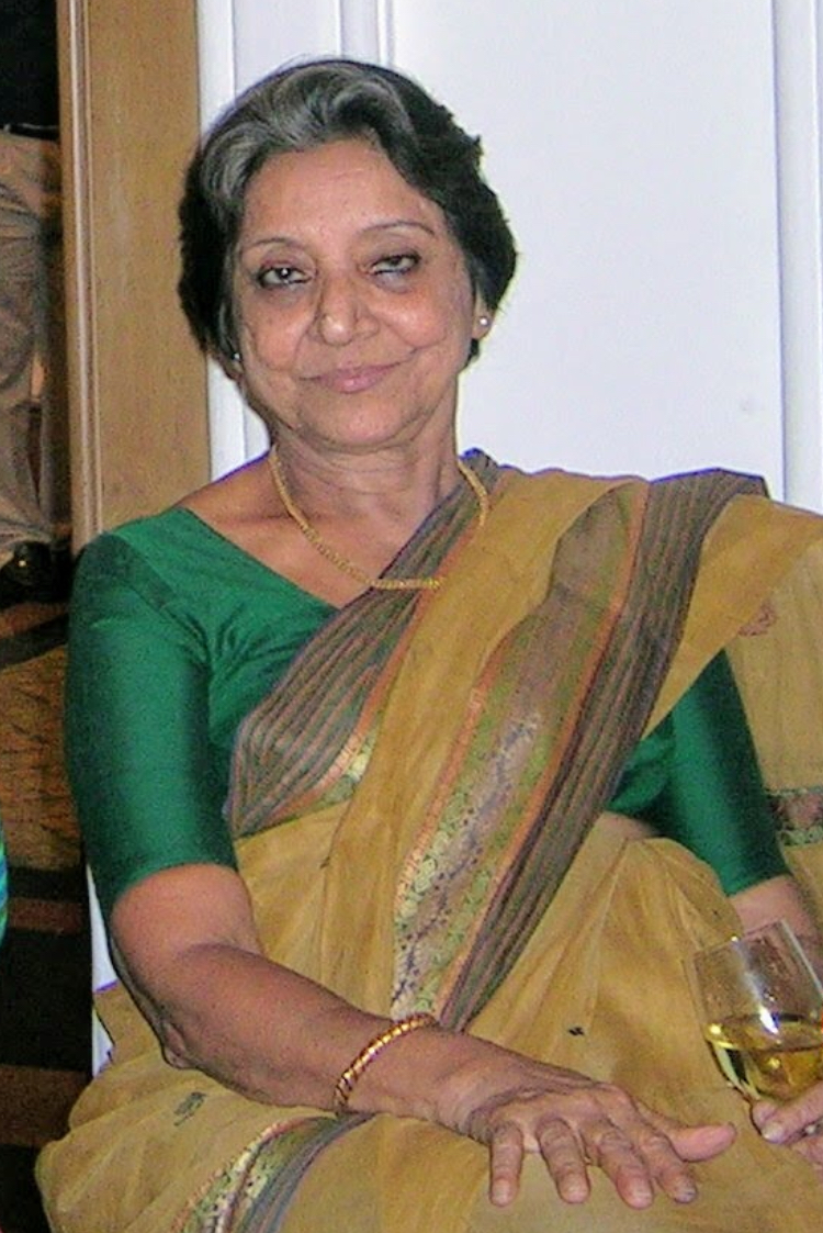 Meenakshi Mukherjee glass in hand